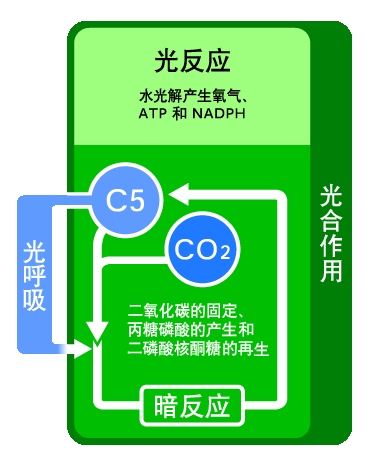 Photorespiration_und_photosynthese